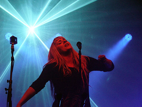 Eivør Pálsdóttir at Atlas venue in Aarhus, Denmark (2015)